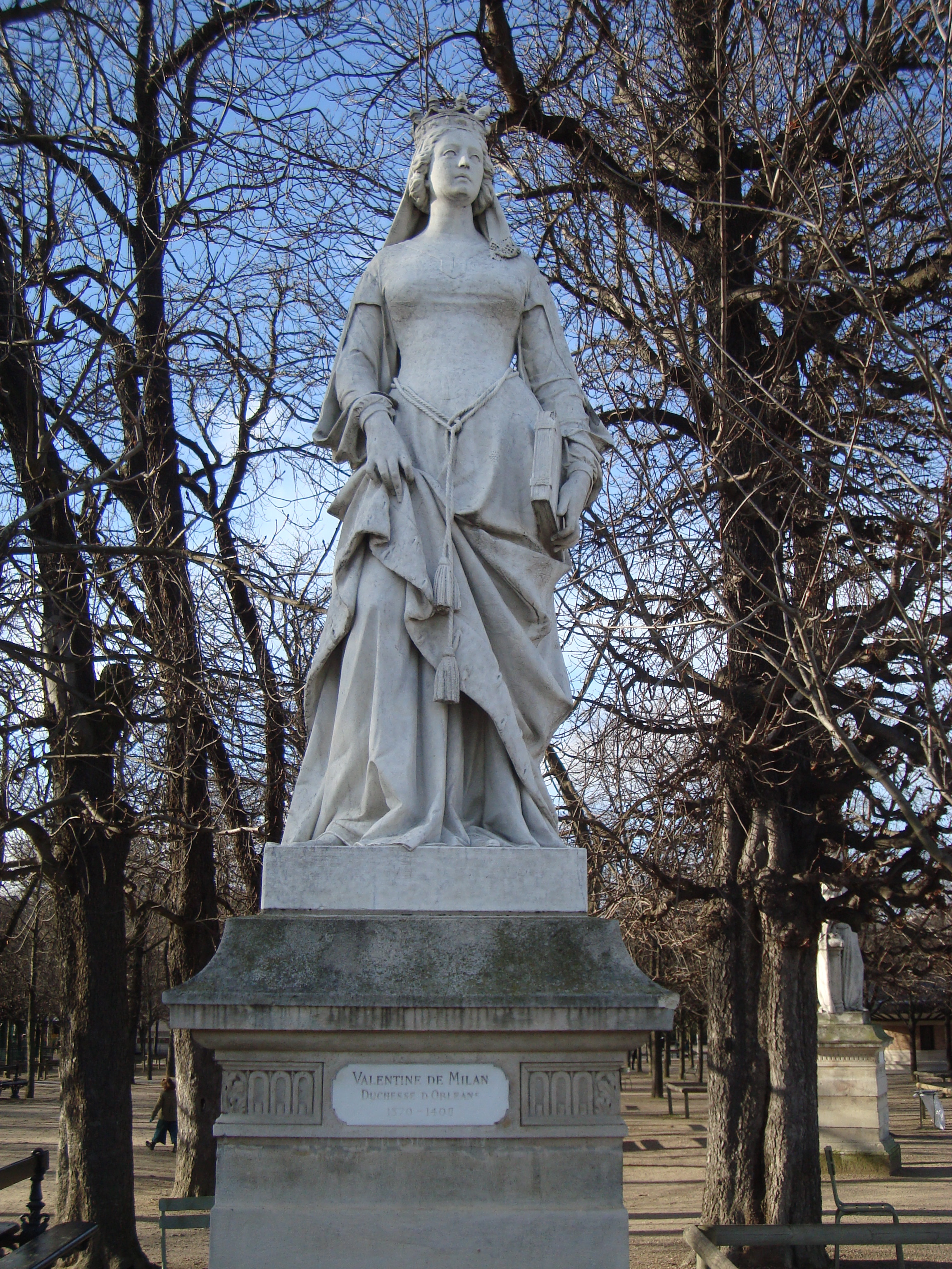 Statue of Valentine de Milan in the Jardin du Luxembourg, Paris